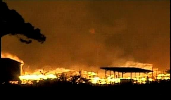 The August 2008 burning of the patriot camp near Ganarjiis Mukhuri